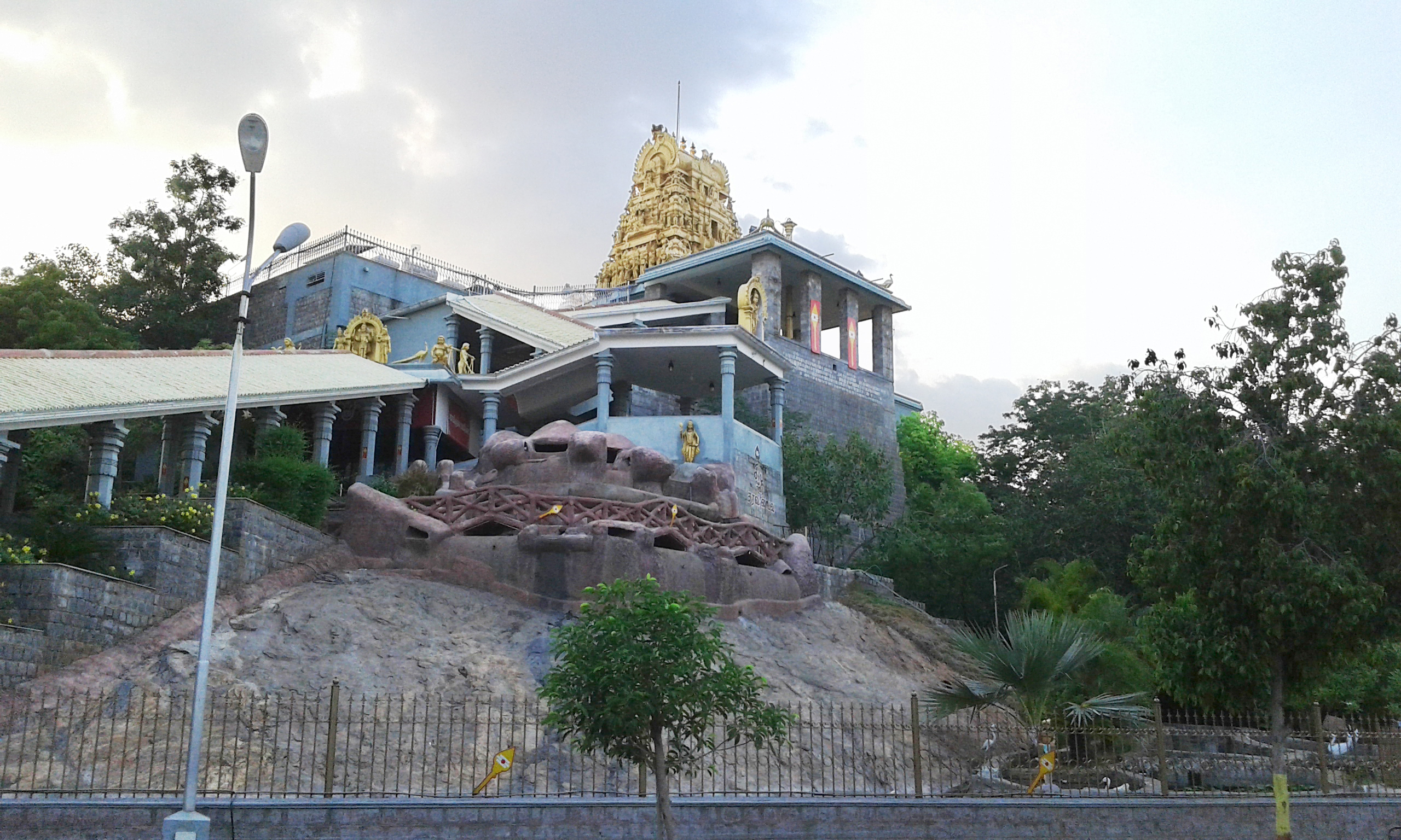 Thindal Murugan temple